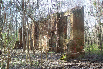 Ruins of the Elizabeth Female Academy on the Natchez Trace Parkway in Mississippi, USA